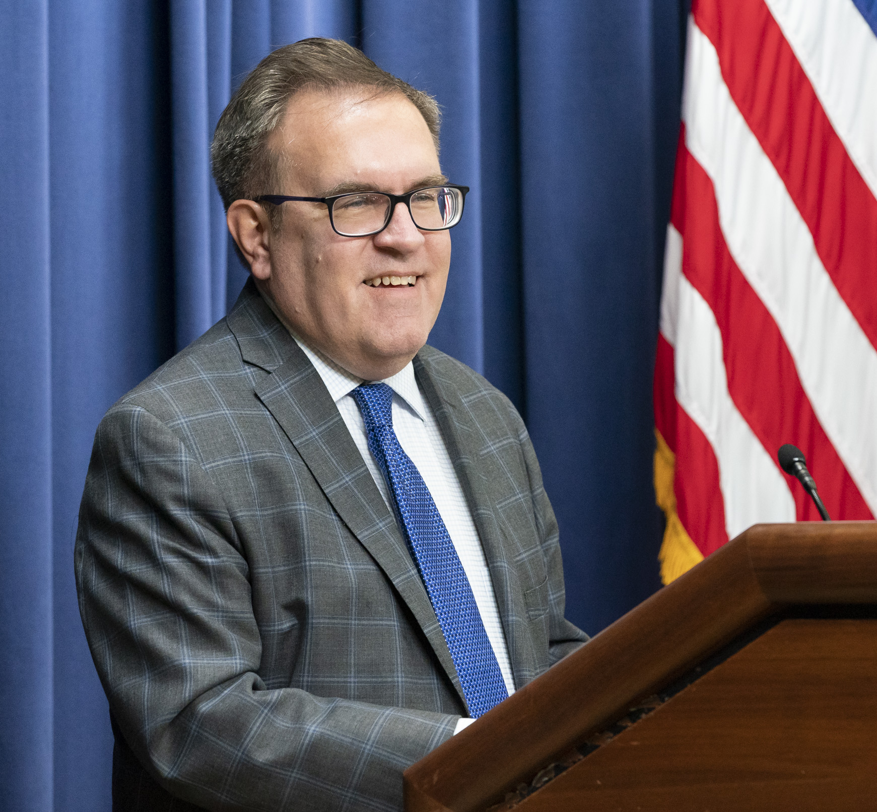 EPA Administrator Wheeler delivers remarks and takes questions Tuesday, September 10, 2019, during the 7th of 10 Regional State Leadership Day events with elected county and municipal officials from Alaska, Idaho, Montana, North Dakota, Oregon, South Dakota, Washington and Wyoming, in the Eisenhower Executive Office Building. (Official White House Photo by Andrea Hanks)